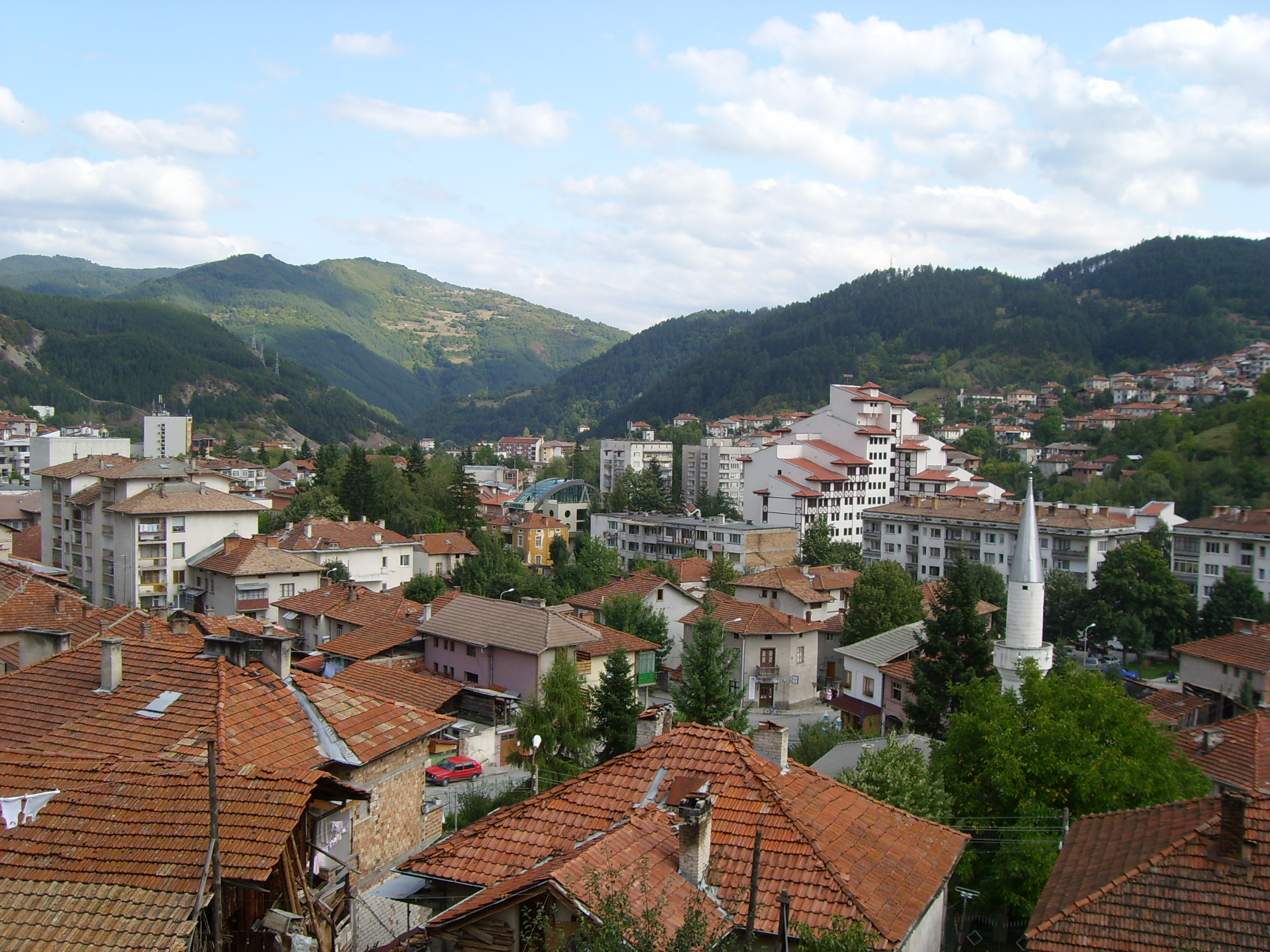 View of the town of Devin.